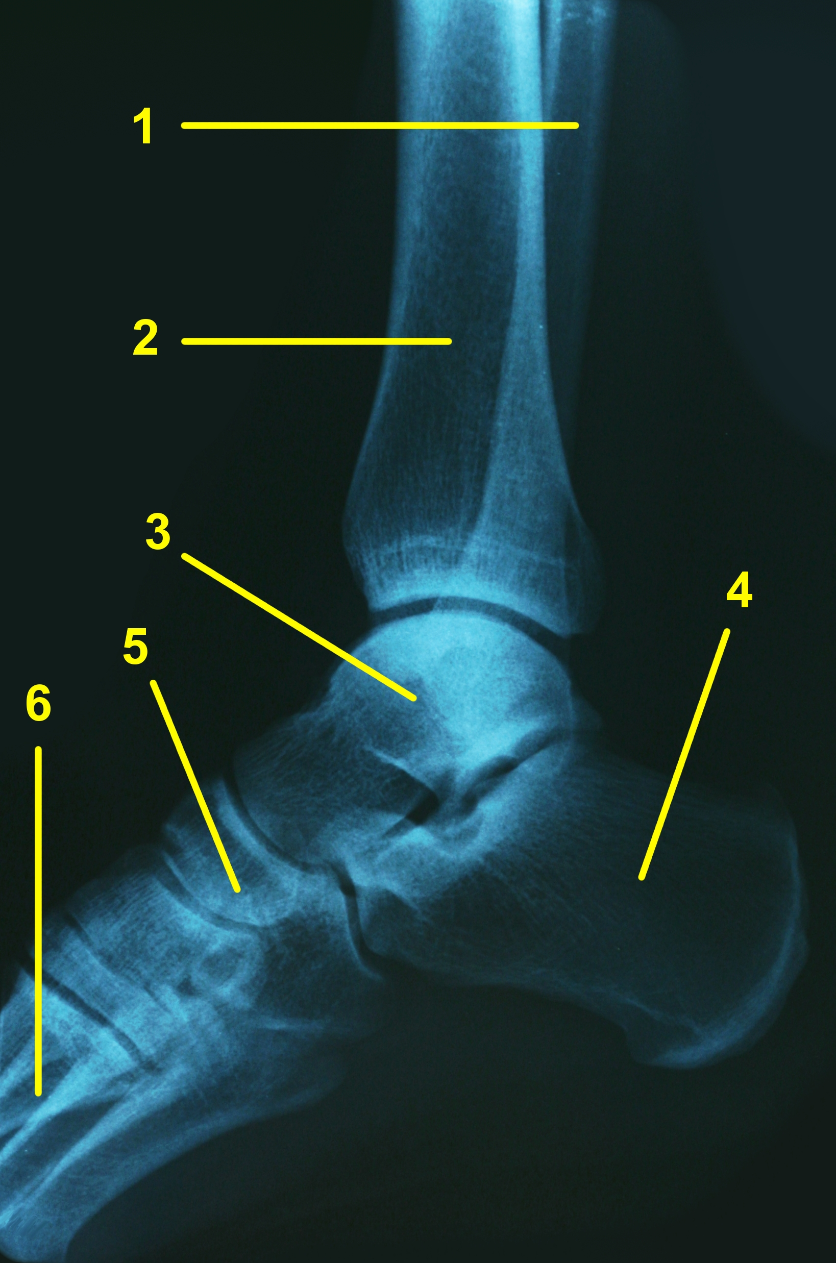 my injured ankle